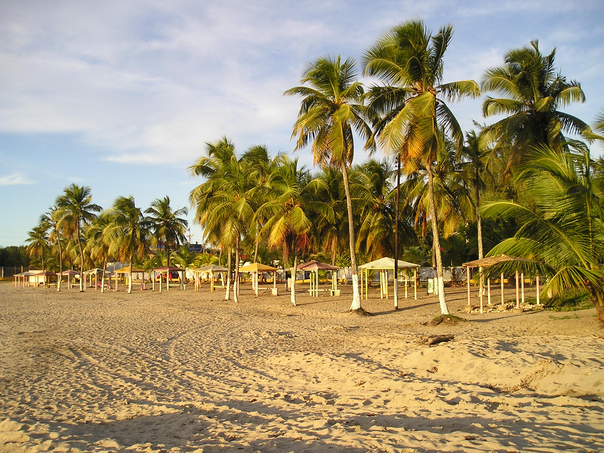 Arecibo beach near the El Vigia lighthouse (Puerto Rico).